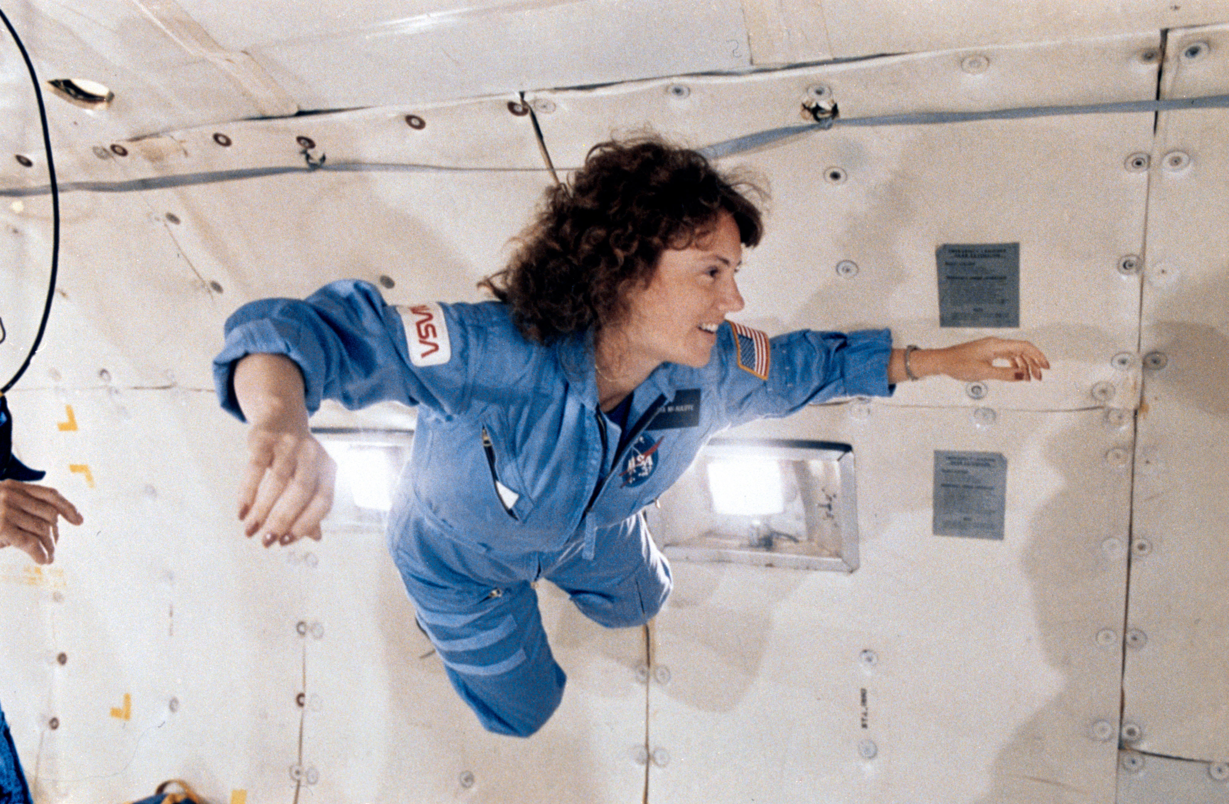 Teacher in Space Christa McAuliffe on the KC-135 for zero-G training. McAuliffe, who served as a payload specialist/teacher in space on STS-51-L, gets a preview of microgravity during a special flight aboard NASA's KC-135 "zero gravity" aircraft. Image #: S86-25196.